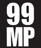 Logo of the 99MP Party of New Zealand. Obtained from the now-defunct website of the party.